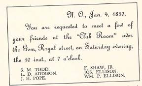 Mystik Krewe of Comus / The Pickwick Club